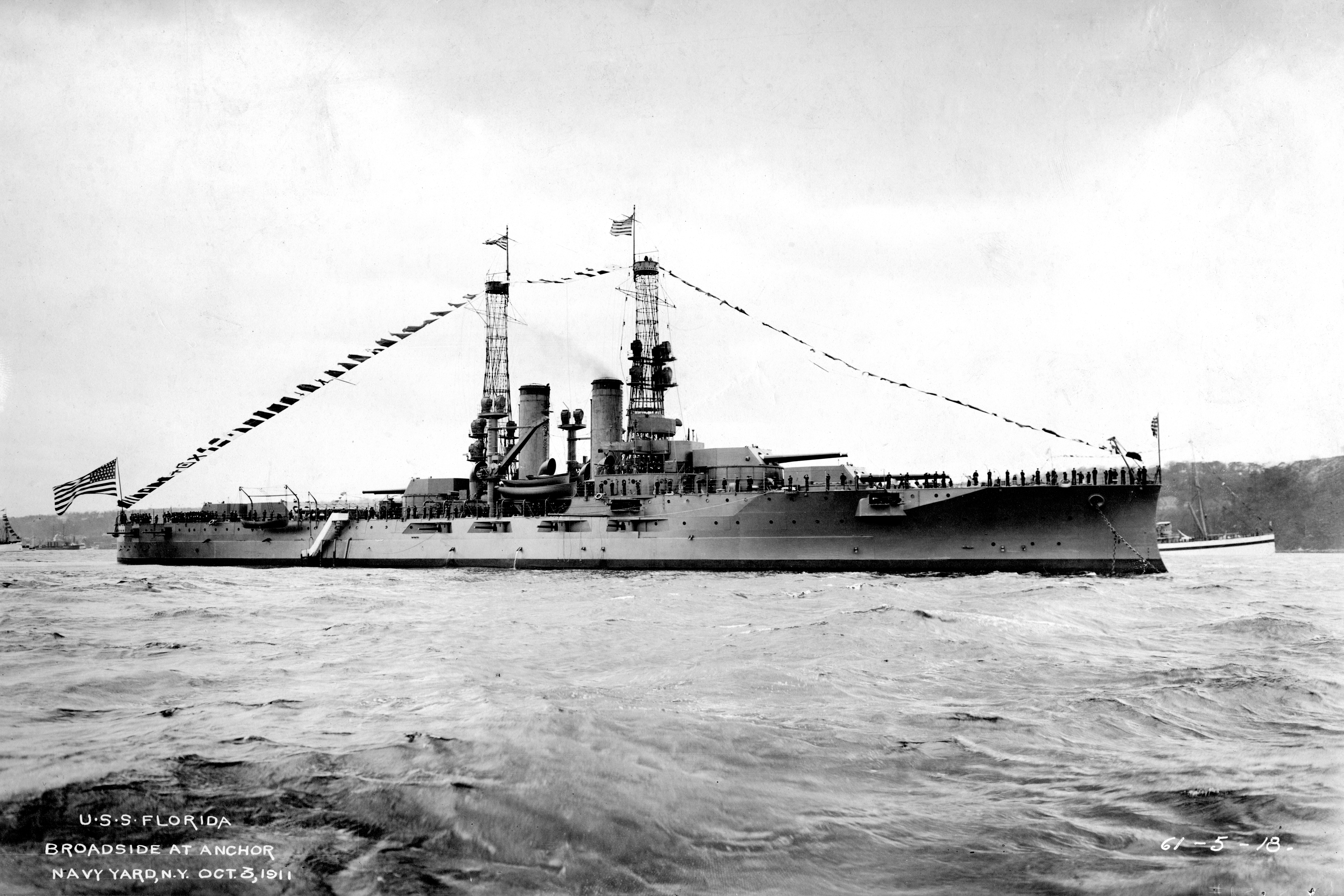 Dressed with flags during the Naval Review off New York City, 3 October 1911. U.S. Naval History and Heritage Command Photograph.